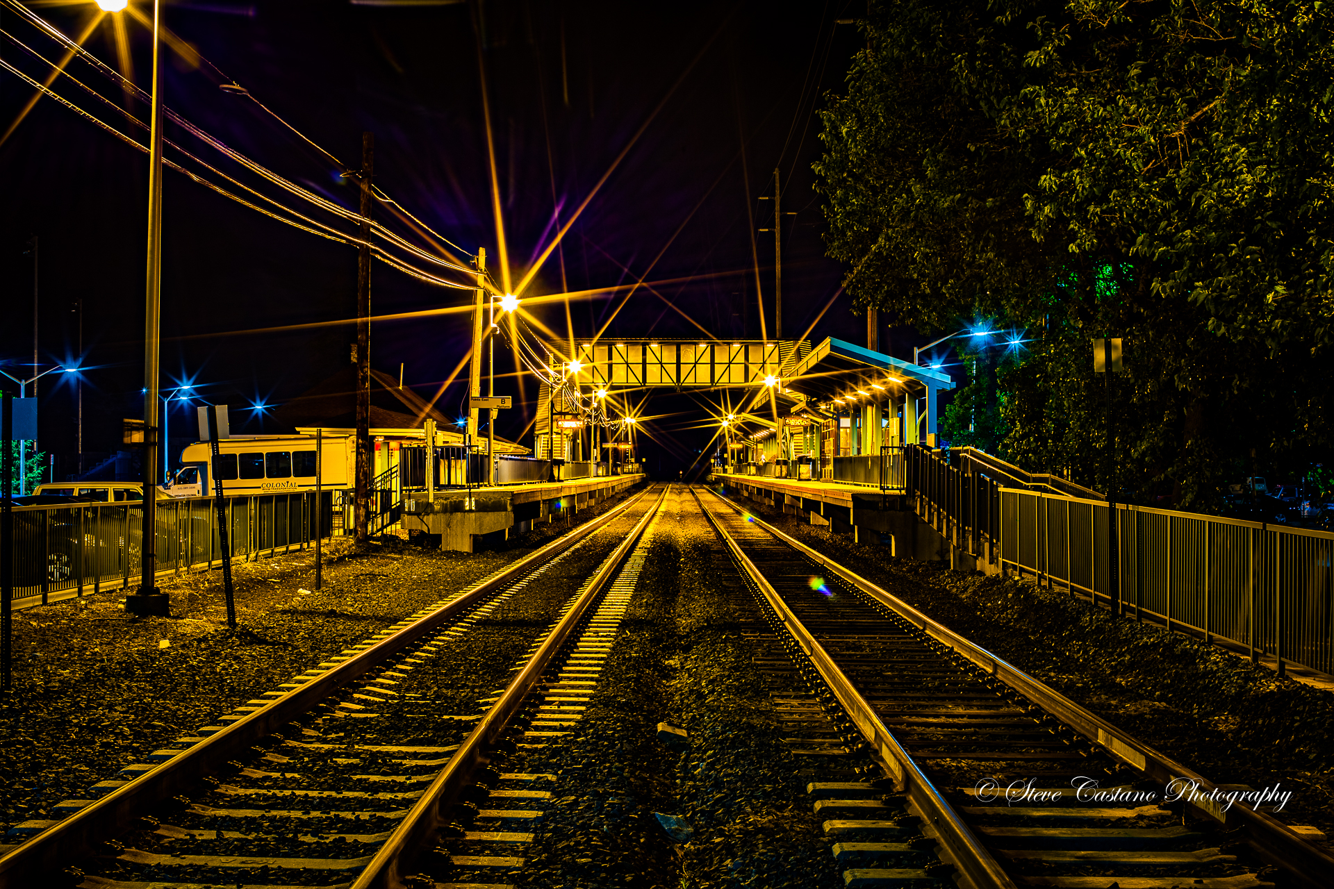 This is a view of the station at about 2:30am shot on July 2nd, 2017. Taken with a Canon 5D Mark II, multiple exposure were used to create the HDR photograph of the empty platform, tracks and pedestrian bridge.